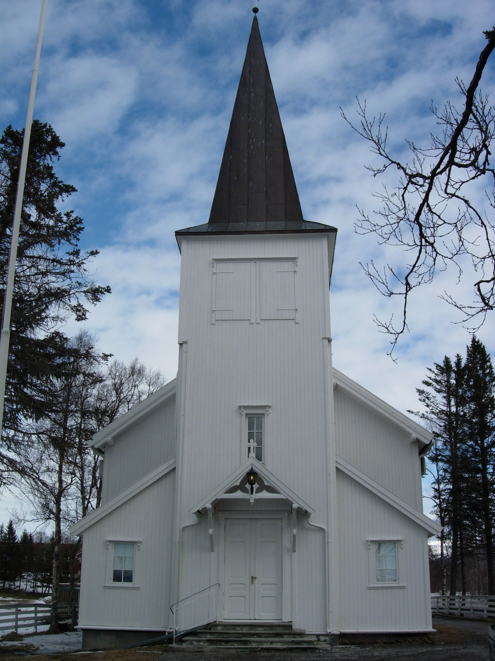 Valnesfjord kirke i Fauske kommune Valnesfjord church in the municipality of Fauske in Norway